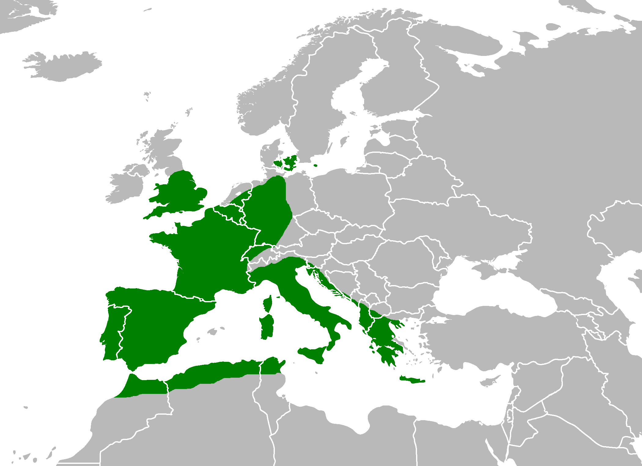 Range of Oedemera nobilis (Coleoptera: Oedemeridae)